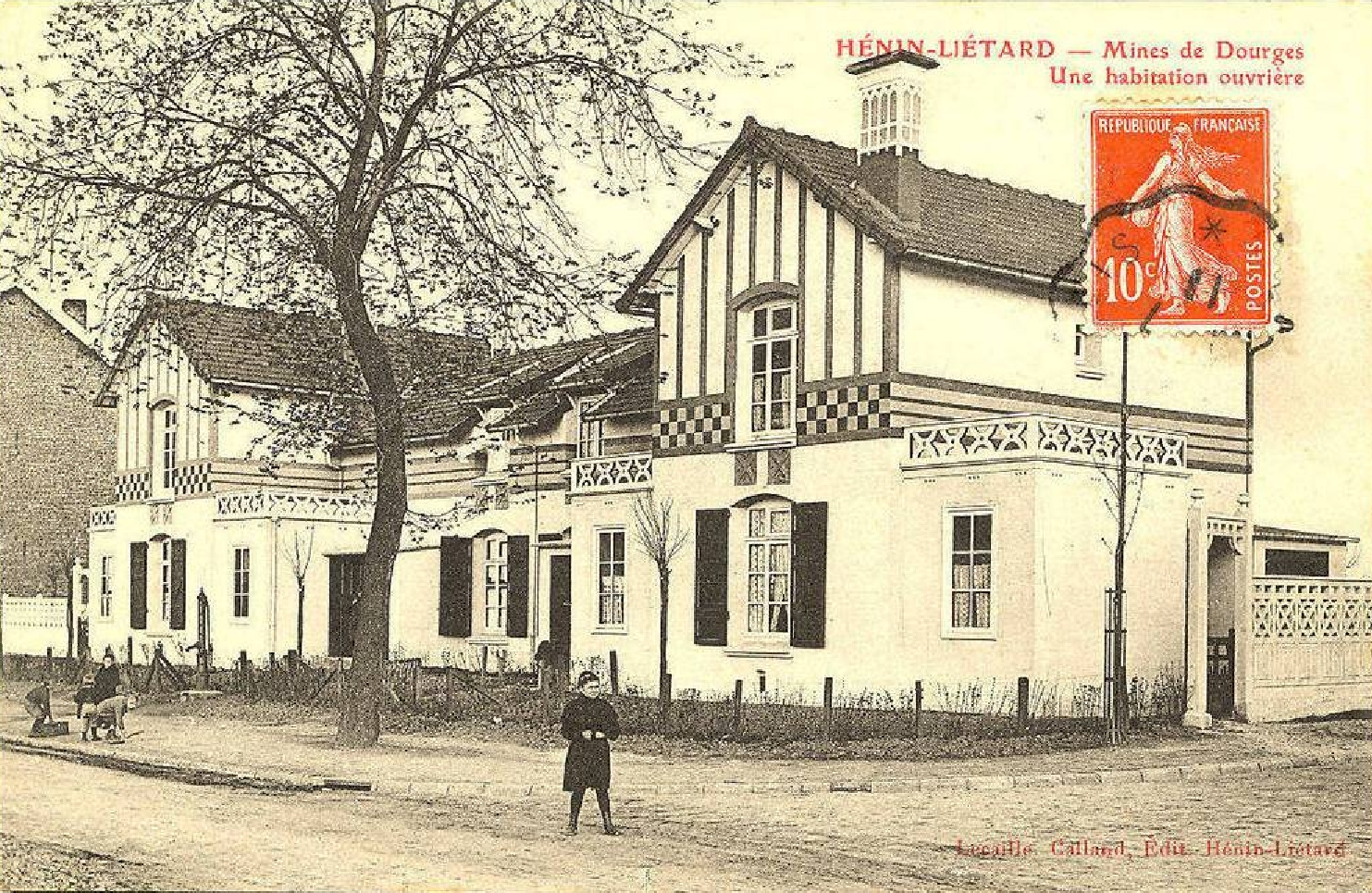 Compagnie des mines de Dourges, Pas-de-Calais, France.